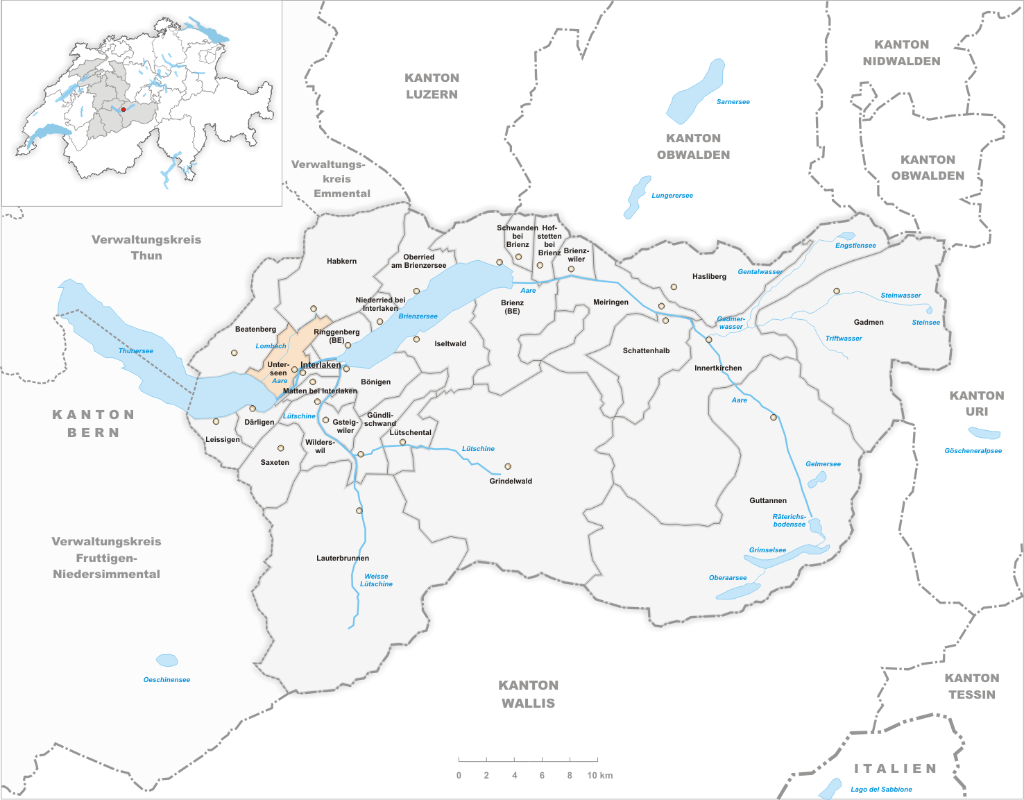 Municipality Unterseen